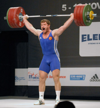 K Akkaev snatches 198kg at the 2011 World Weightlifting Championship WWC) in Paris France